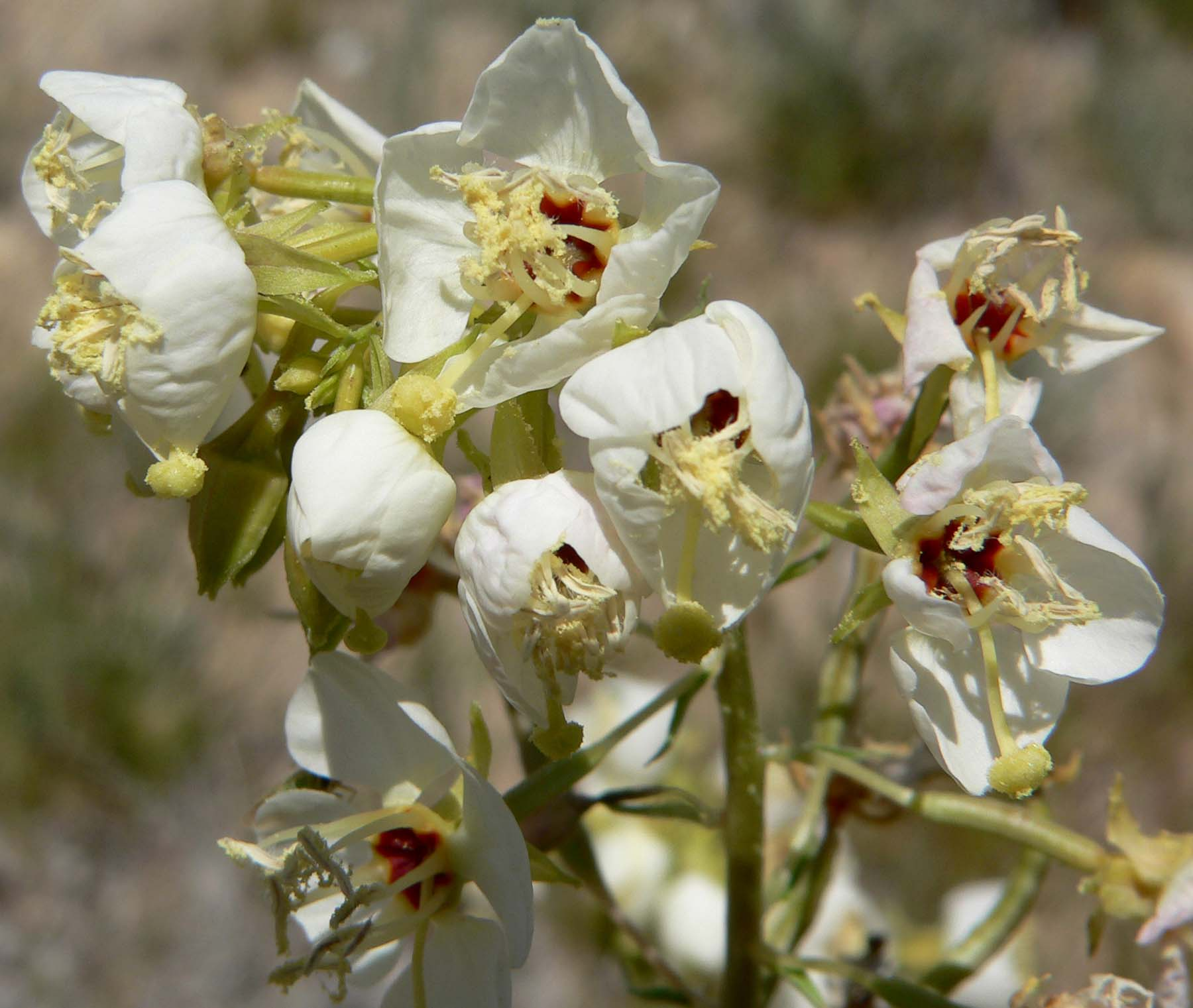 Photo of Camissonia claviformis (brown-eyed primrose) in the Mojave Desert east of Barstow, California